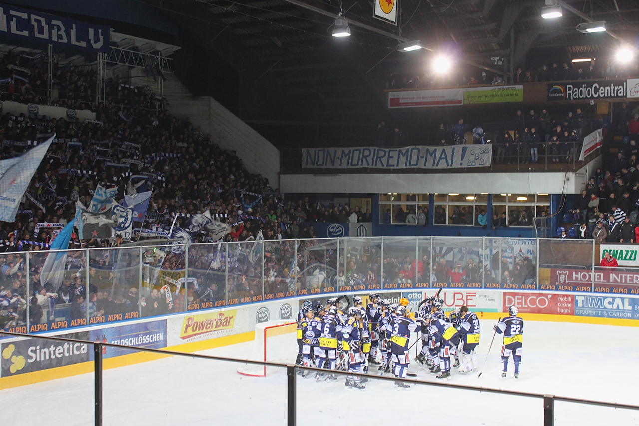 "Valascia" ice hockey venue in Quinto (Switzerland).